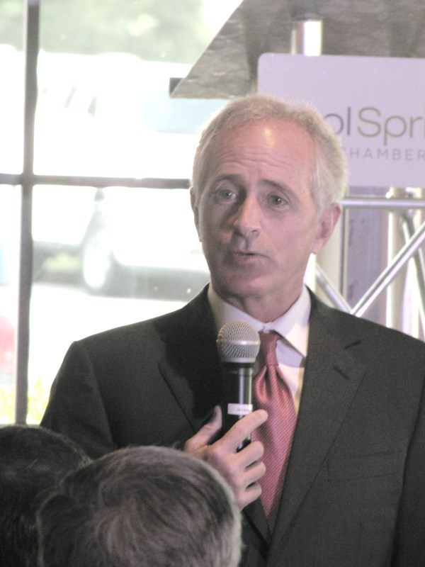 Bob Corker speaks at the Cool Springs Chamber of Commerce breakfast in Brentwood, Tennessee.